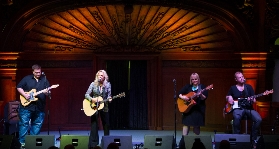 Beccy Cole and her backing band, performing at The Abbey, Canberra, on 19 July 2013